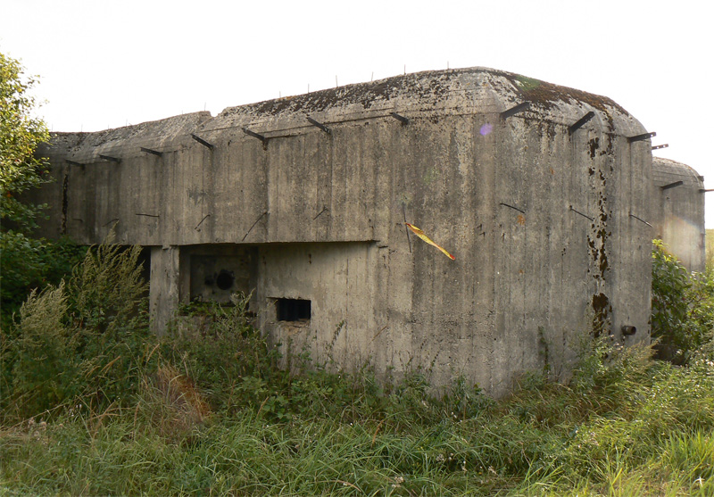 Molotov line bunker at Telšiai fortified region (Rūdaičiai village, Kretinga district).